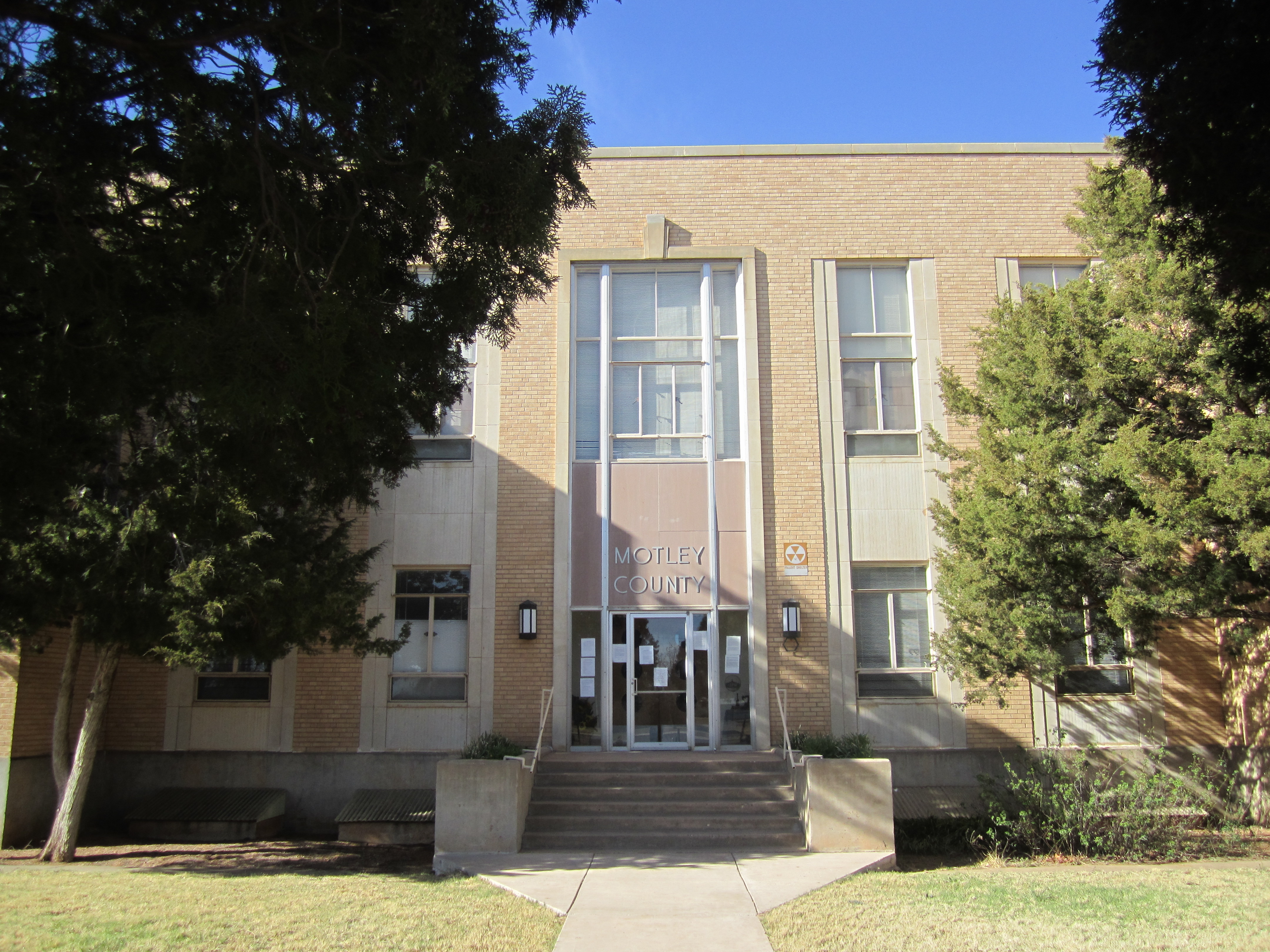 I took photo with Canon camera in Matador, TX.